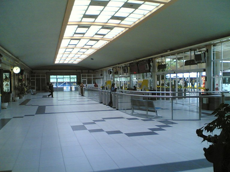 FEVE Railway Station in Santander (Cantabria, Spain)